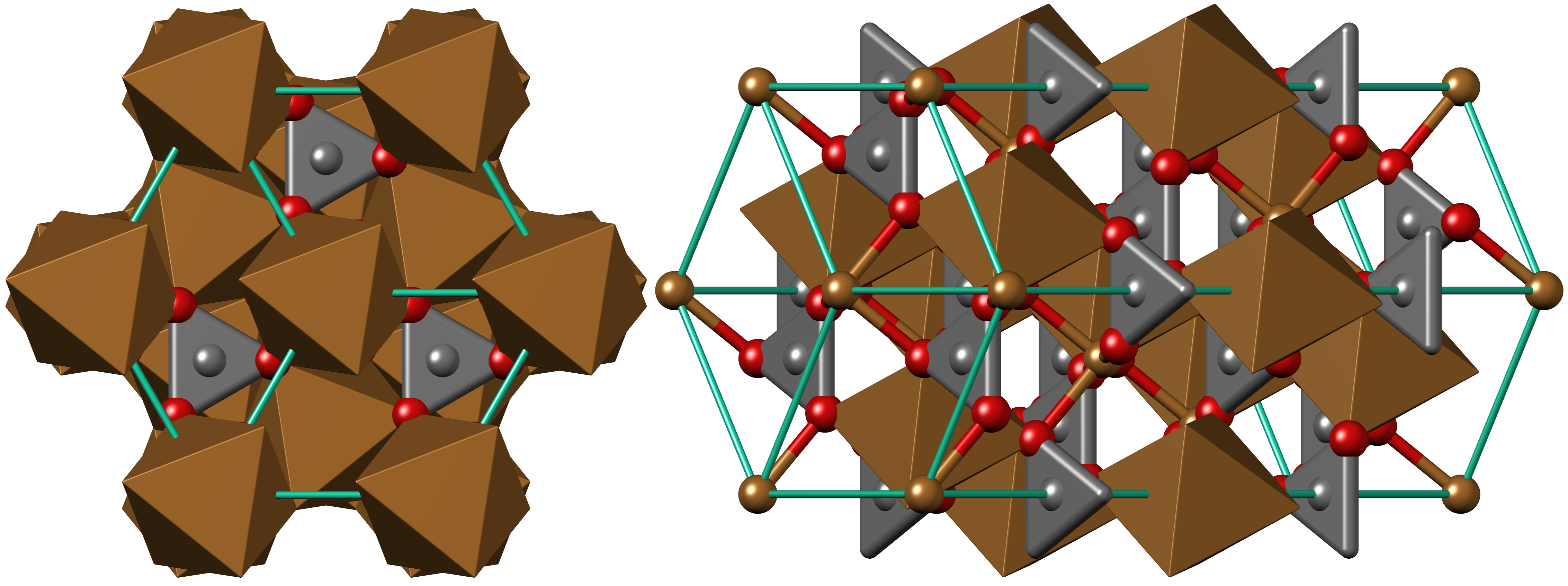 Crystal structure of copper(II) carbonate. American Mineralogist 46 (1961) 1283-1316 Colour code: Copper, Cu: brown Carbon, C: grey Oxygen, O: red Cell: blue-green